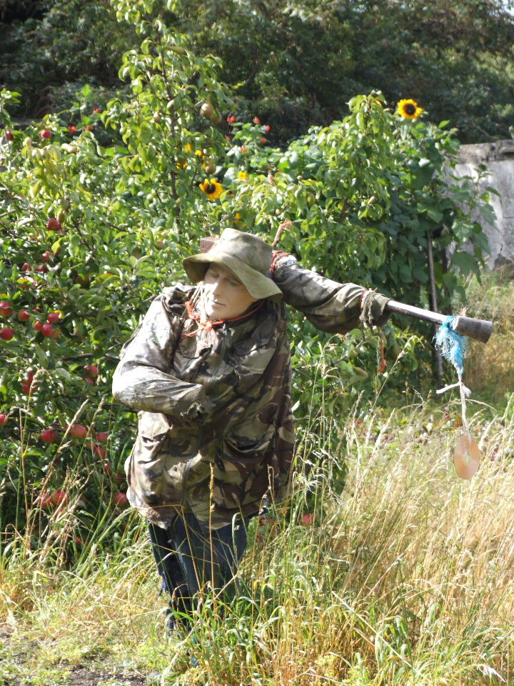 Scarecrow on an allotment, Penmaenamwr, Conwy County, Wales. Detail of photo 1.